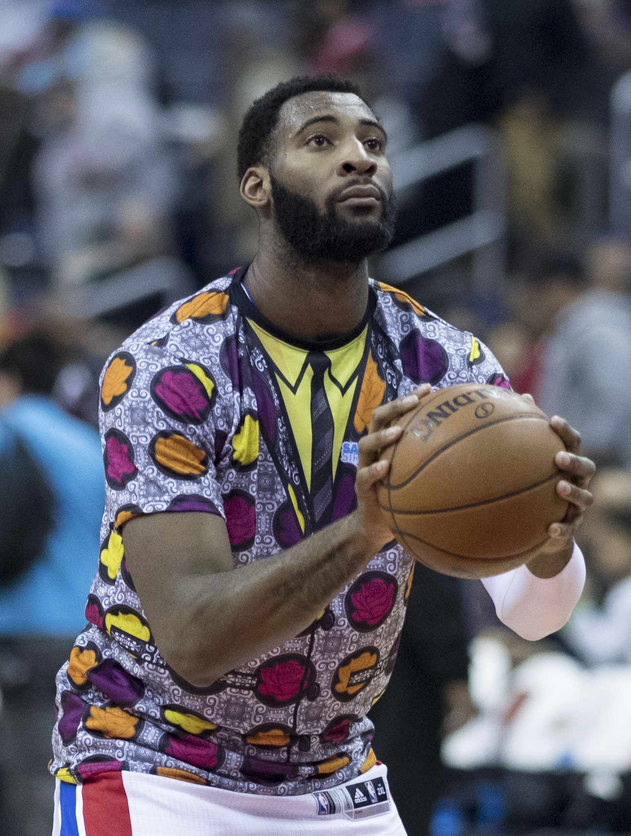 Pistons at Wizards 12/16/16